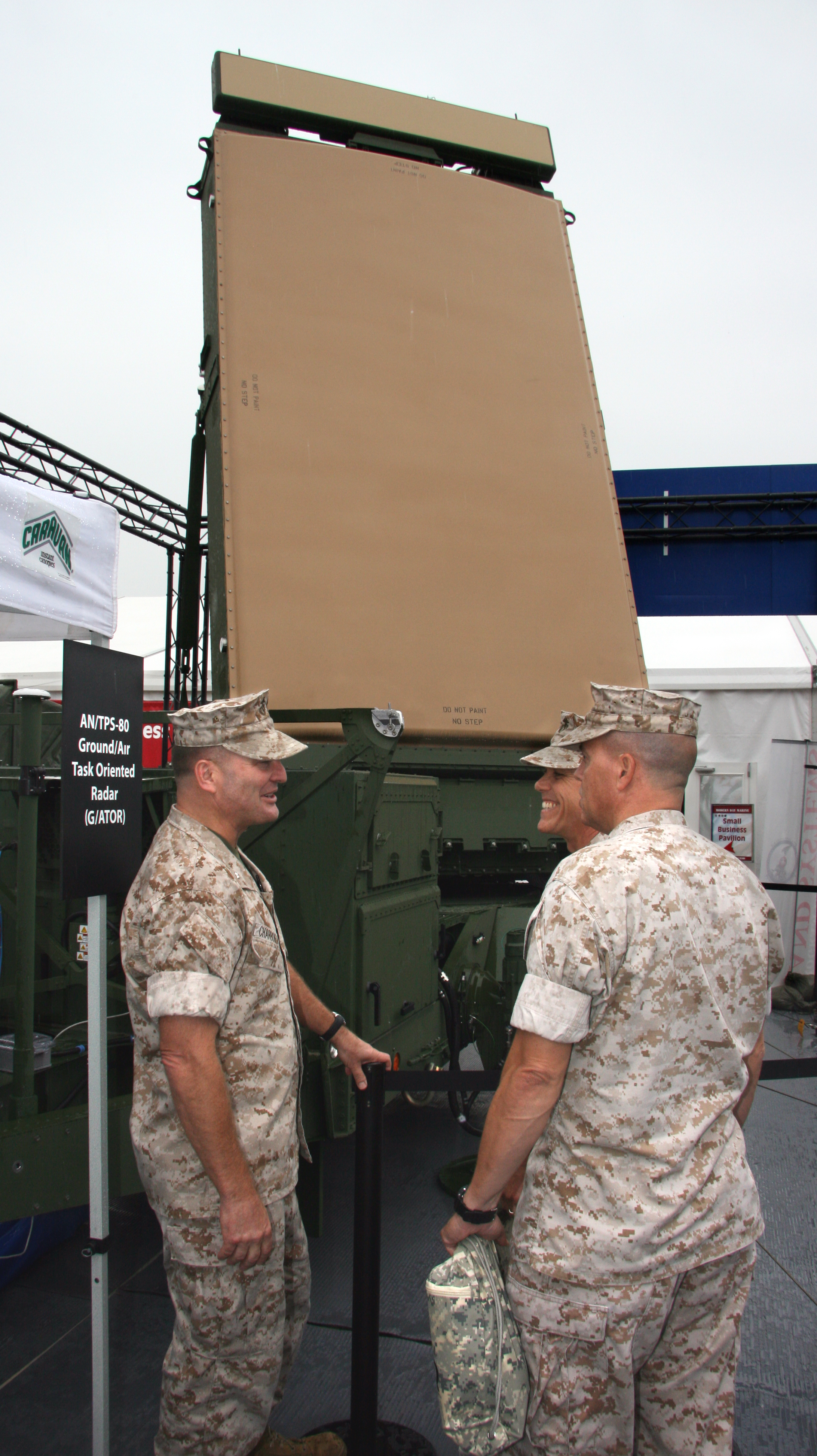 Lieutenant Colonel Pete Charboneau (left), Ground/Air Task Oriented Radar (G/ATOR) Military Deputy Program Manager, speaks with a couple of Marines during the Modern Day Marine exposition at Quantico, Va., in late September.